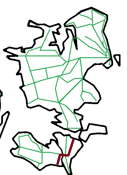 Map of railways on Zealand, Lolland and Falster in Denmark with the private railway Stubbekøbing-Nykøbing-Nysted Banen in brown.